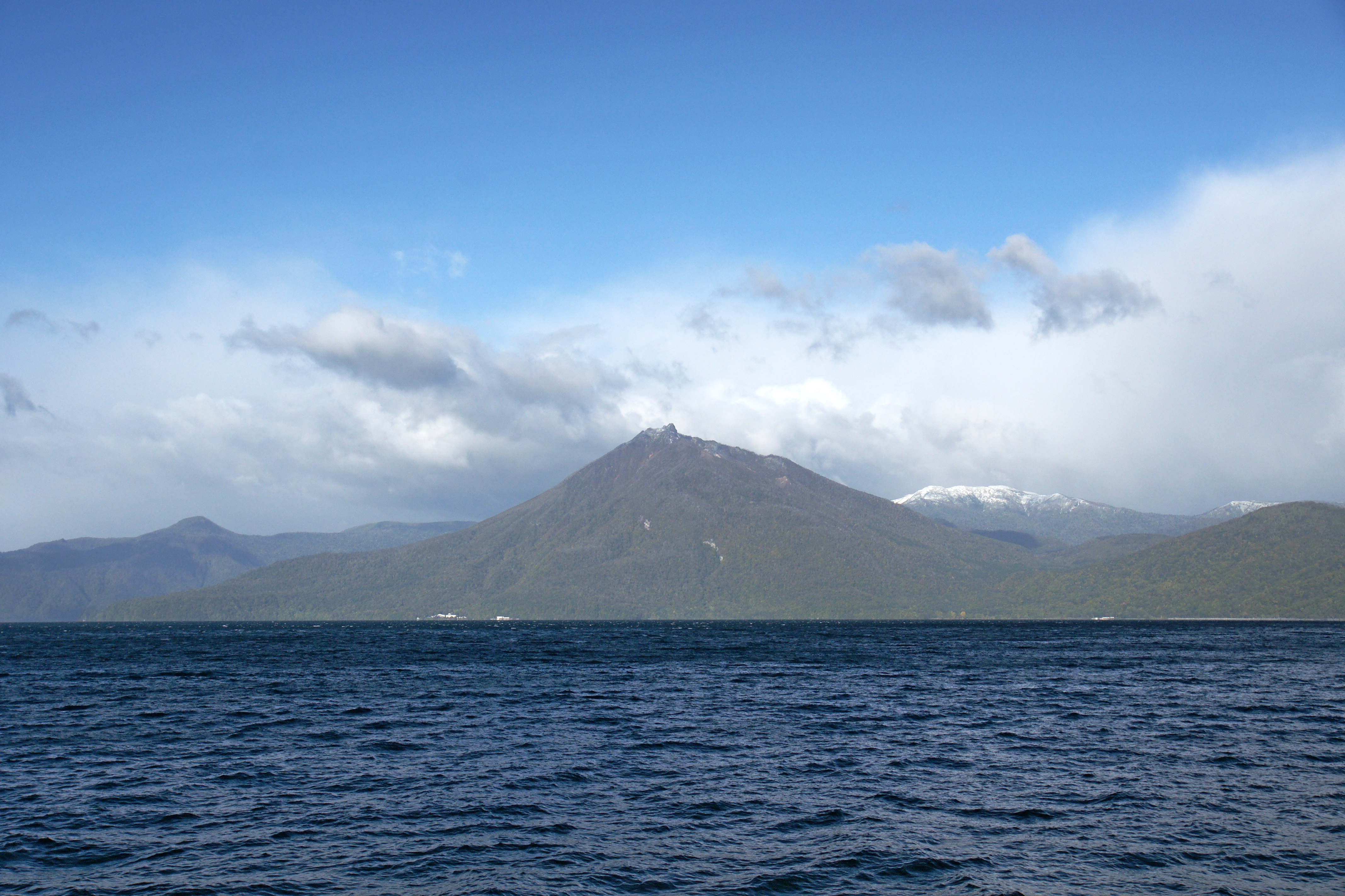 Mt. Eniwa-dake view from Lake Shikotsu, Chitose, Hokkaido prefecture, Japan